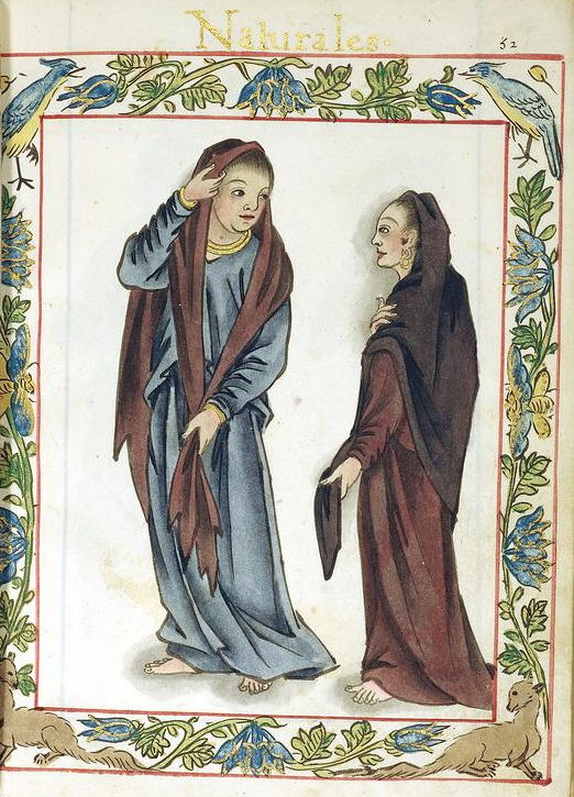 Native Commoners (women) of the Pre-hispanic Philippine Archipelago